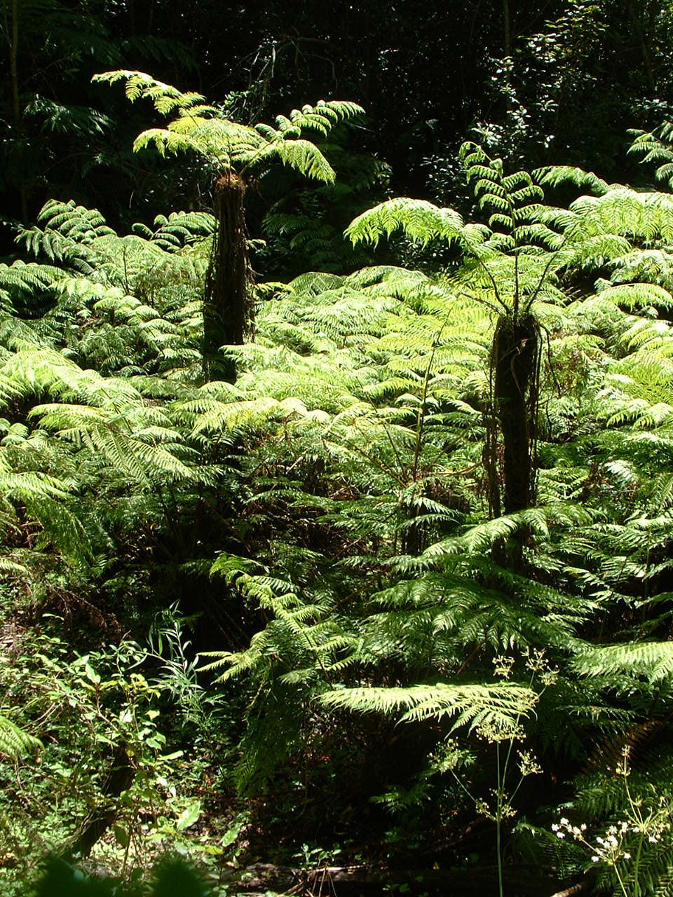 Cyathea capensis Tree ferns. Photo taken in Cape Town.